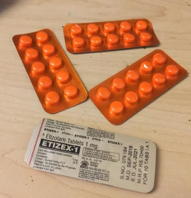 Four sealed blister packs of Etizex-1 tablets, with one flipped over to show the labeling.